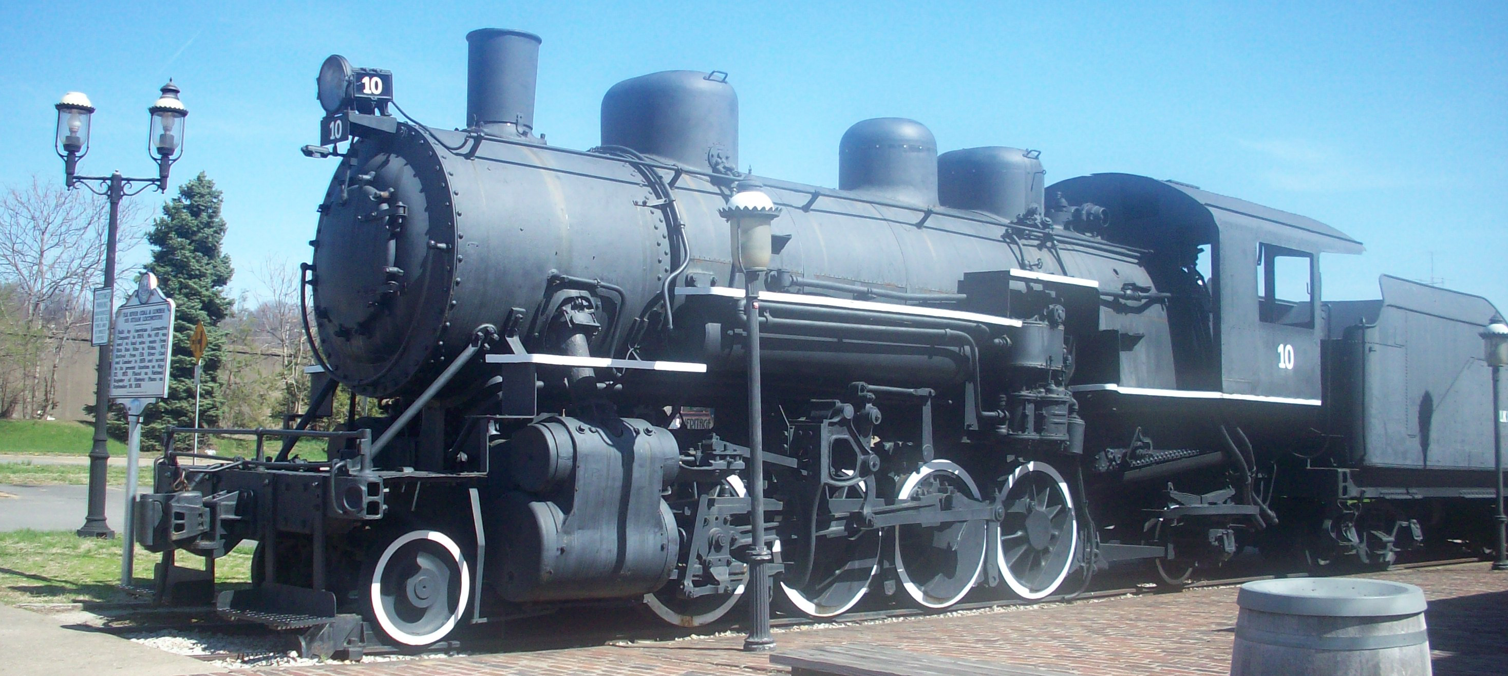 Photo of Elk River Coal & Lumber Company #10 Engine at Heritage Station in Huntington, West Virginia. The photo was taken from the sidewalk along 11th Street.